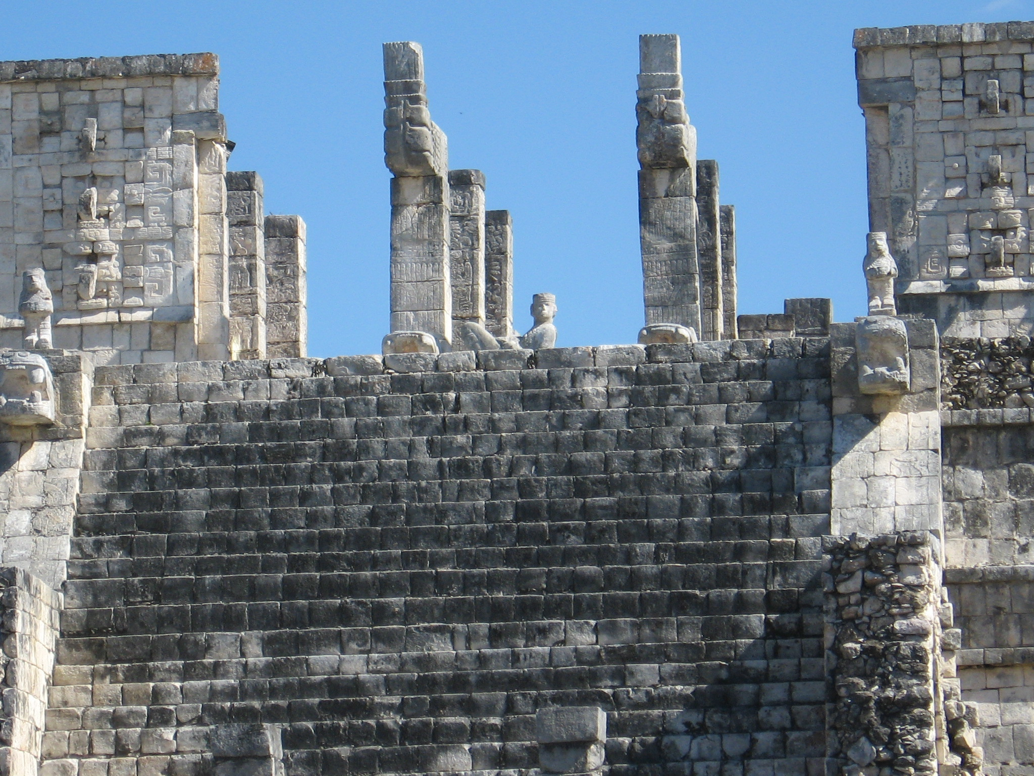 Temple of Warriors (detail) at Chichen Itza, Mexico, showing Chacmool